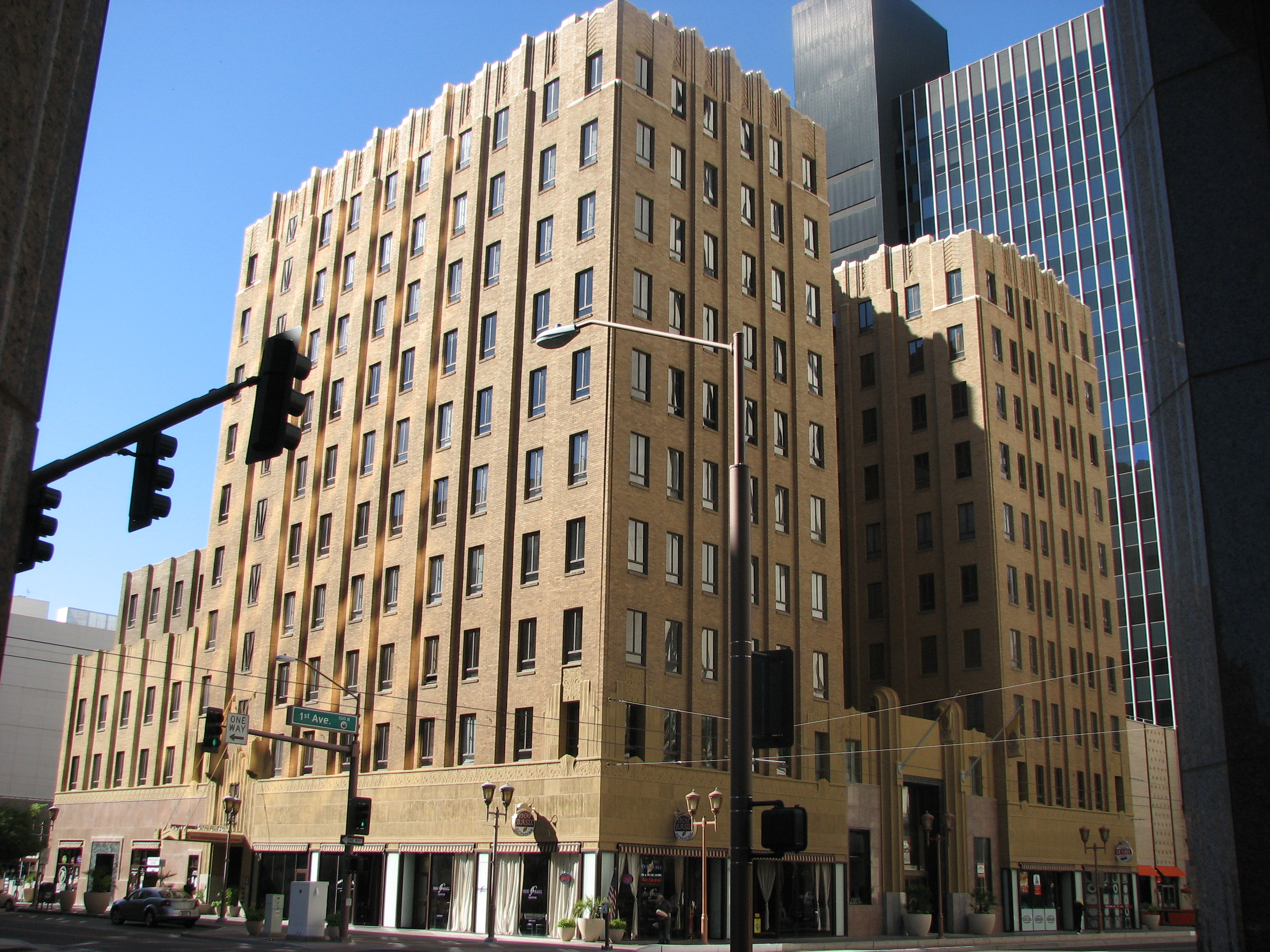 The Orpheum Lofts in downtown Phoenix, Arizona, on September 29, 2013